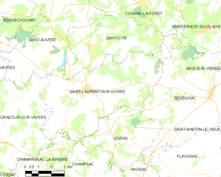 Map of French municipality Saint-Laurent-sur-Gorre